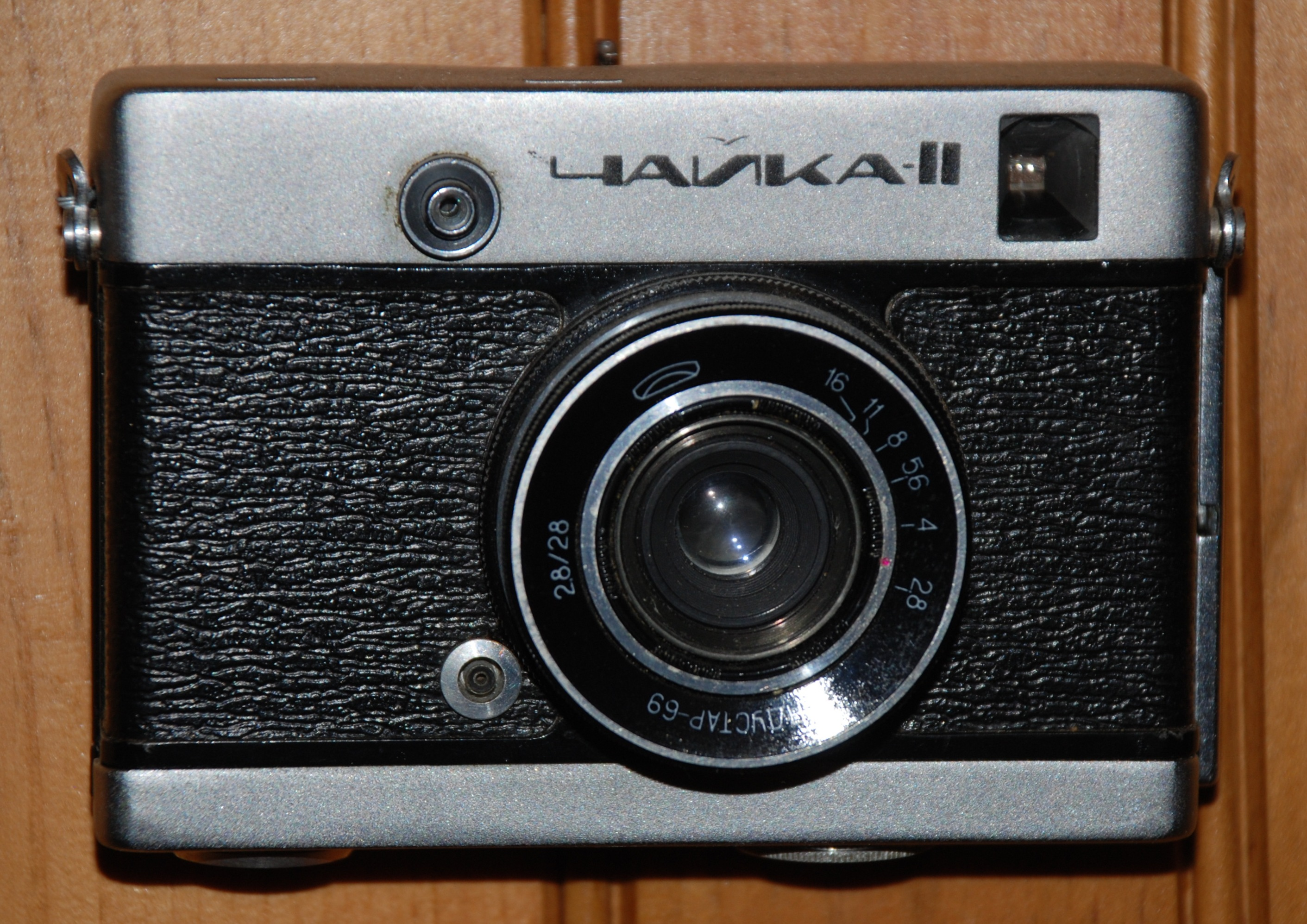 Chaika-2 camera